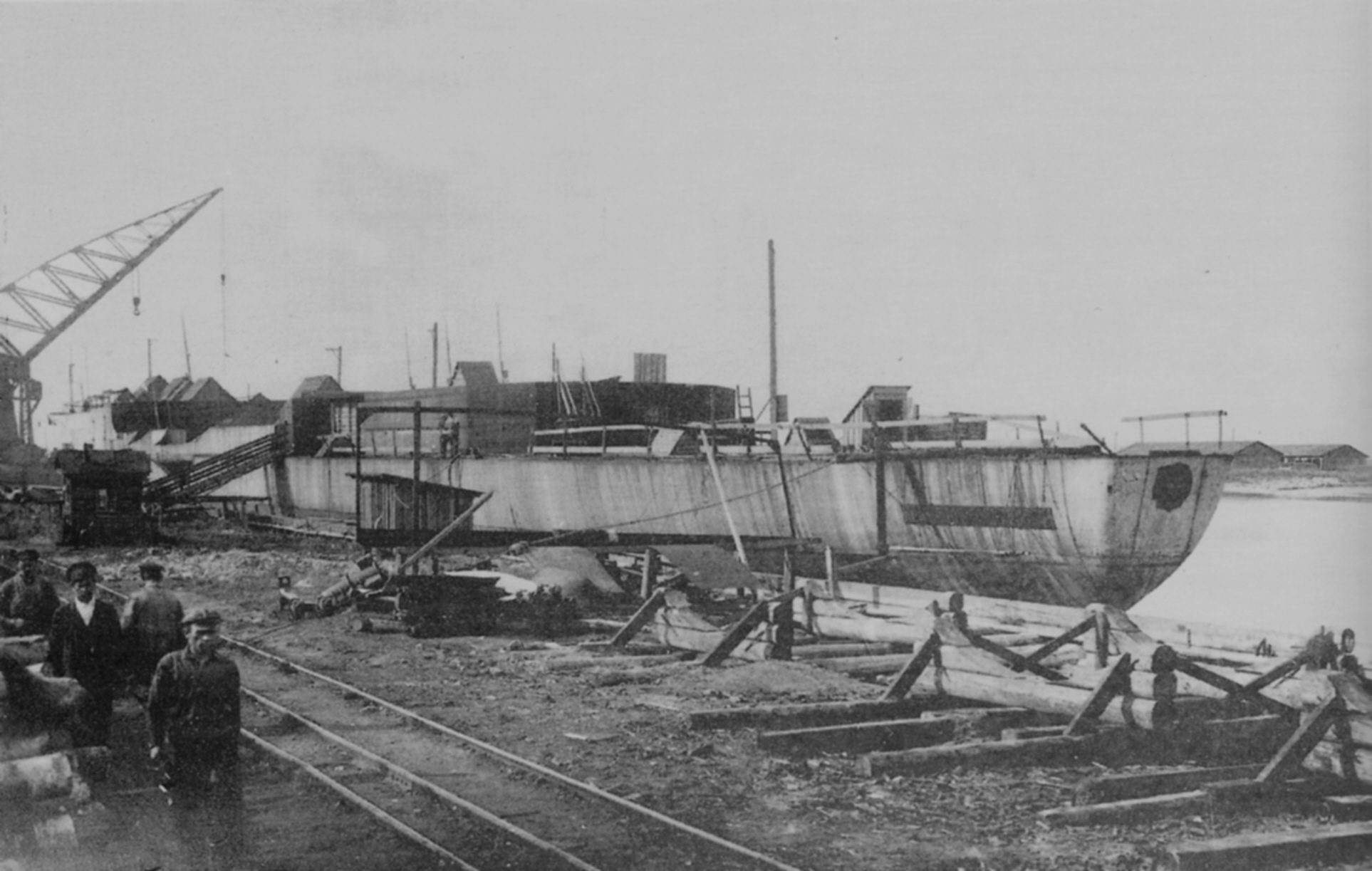 Imperial Russian light cruiser Admiral Spiridov (after 24 Dec. 1926 Grozneft').